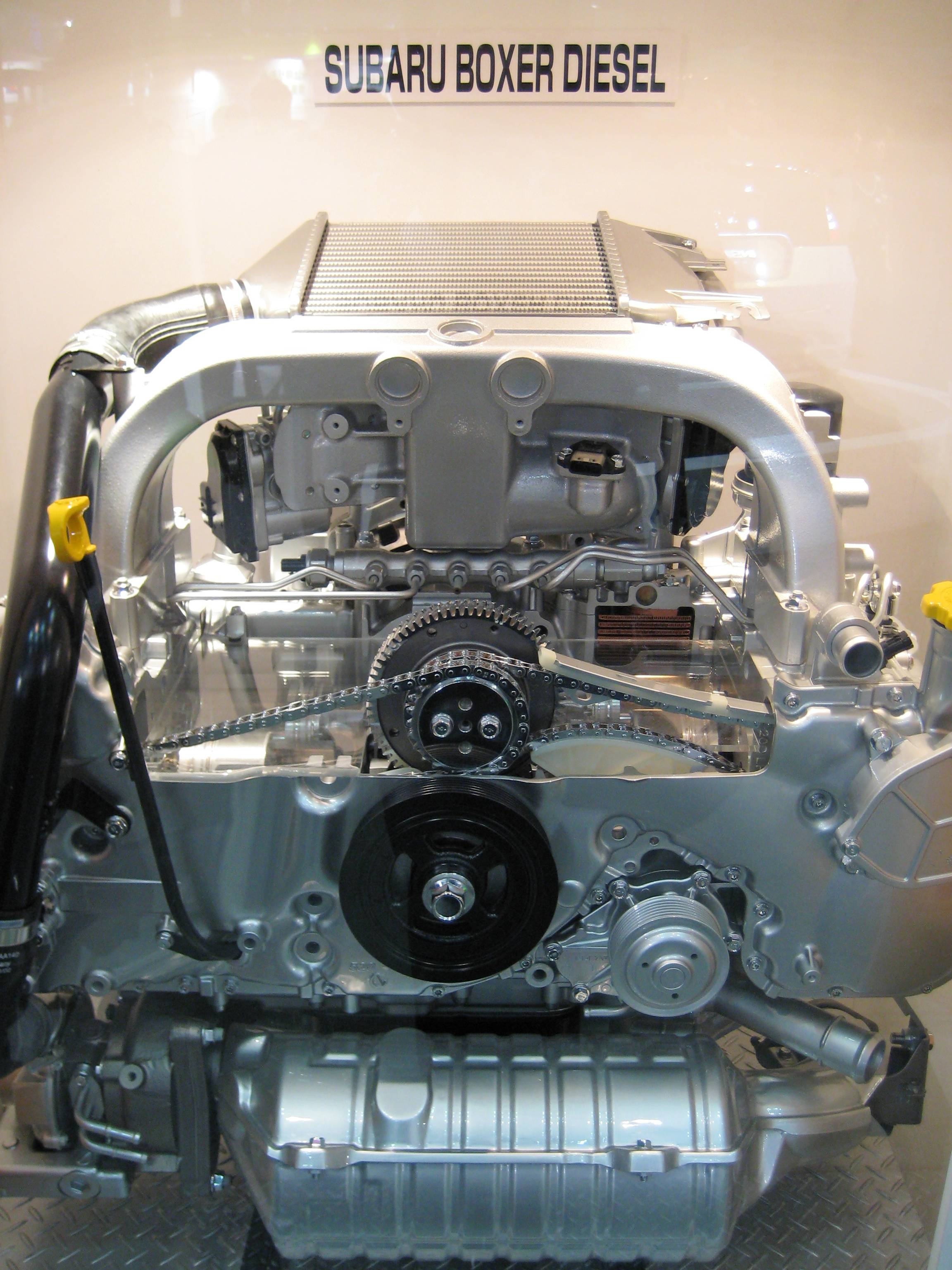 Subaru Boxer Diesel engine for 2008 Legacy in Eco-Products 2008.